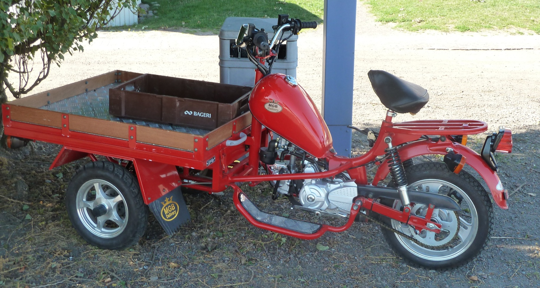 Motorized tricycle photographed in Marstrand